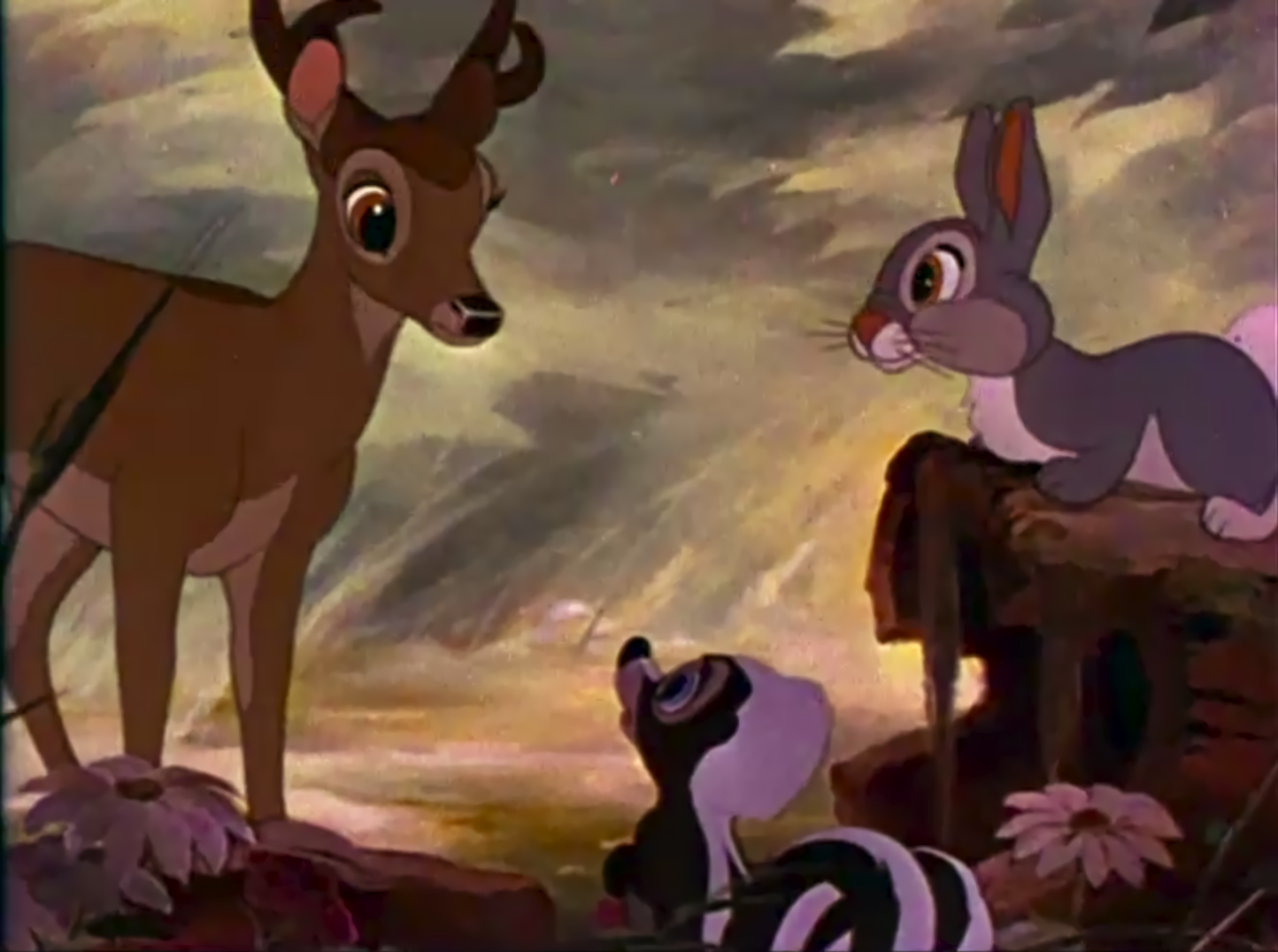 Screenshot of Bambi, Thumper and Flower from the theatrical trailer for the film Bambi. Noise reduction with waifu2x.